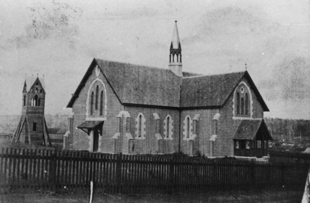 St. James Church of England Toowoomba 1869